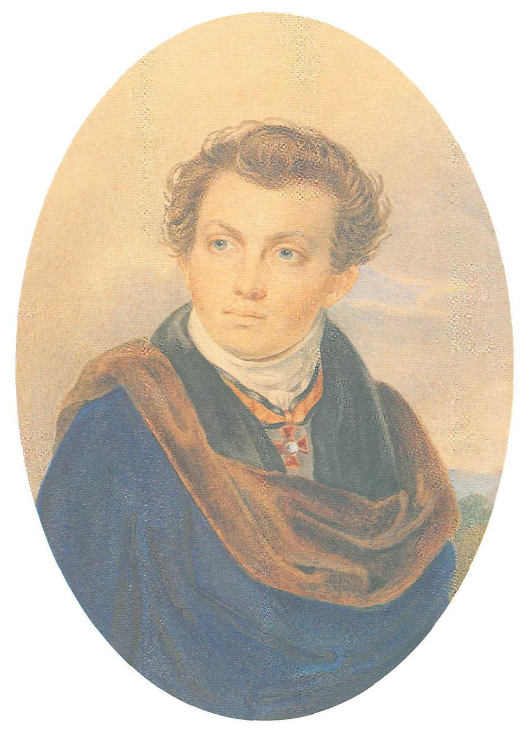 Portrait of Alexander Vitberg. Artist - P. Sokolov